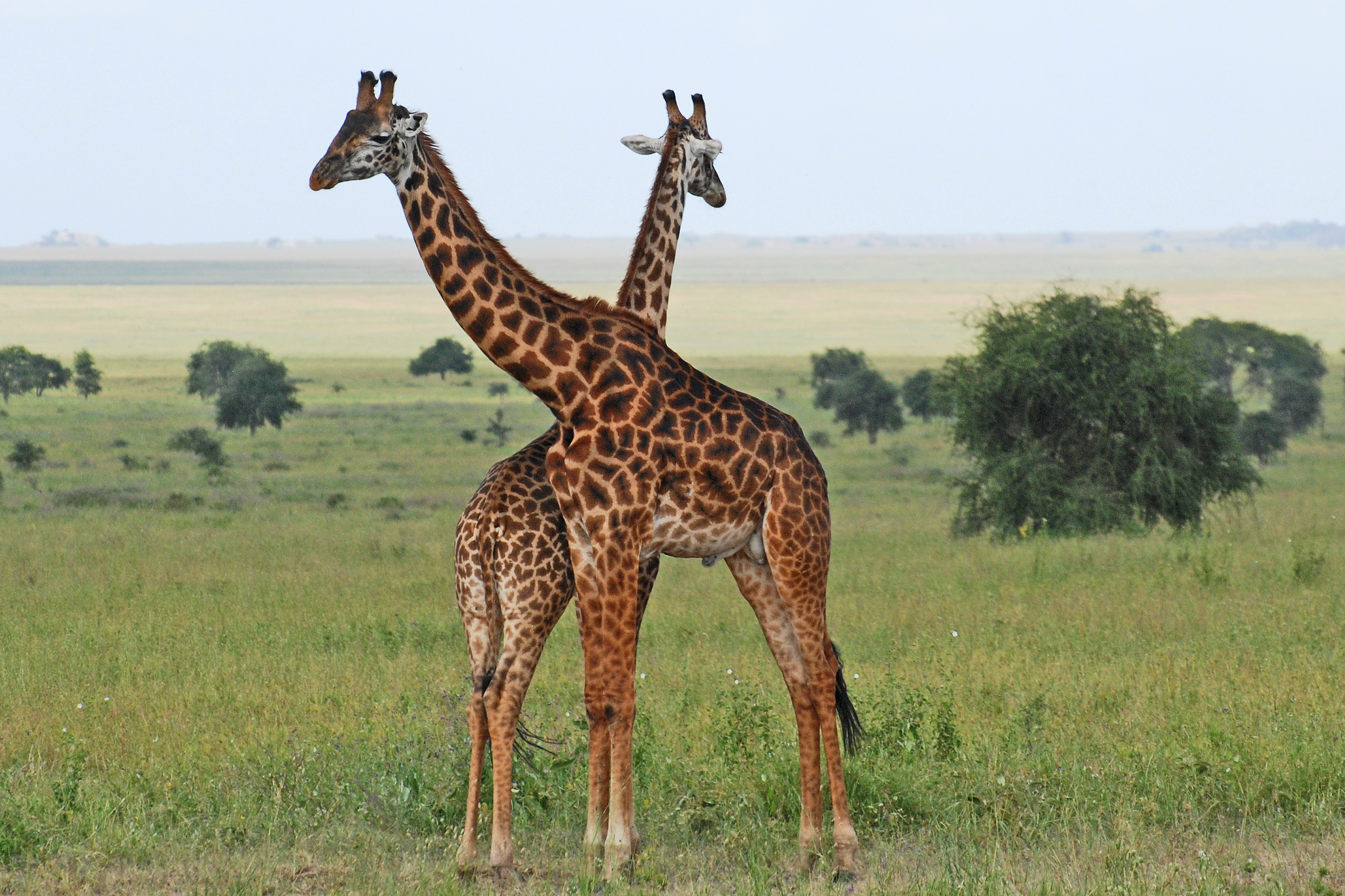 The giraffe (Giraffa camelopardalis) is an African even-toed ungulate mammal, the tallest living terrestrial animal and the largest ruminant.